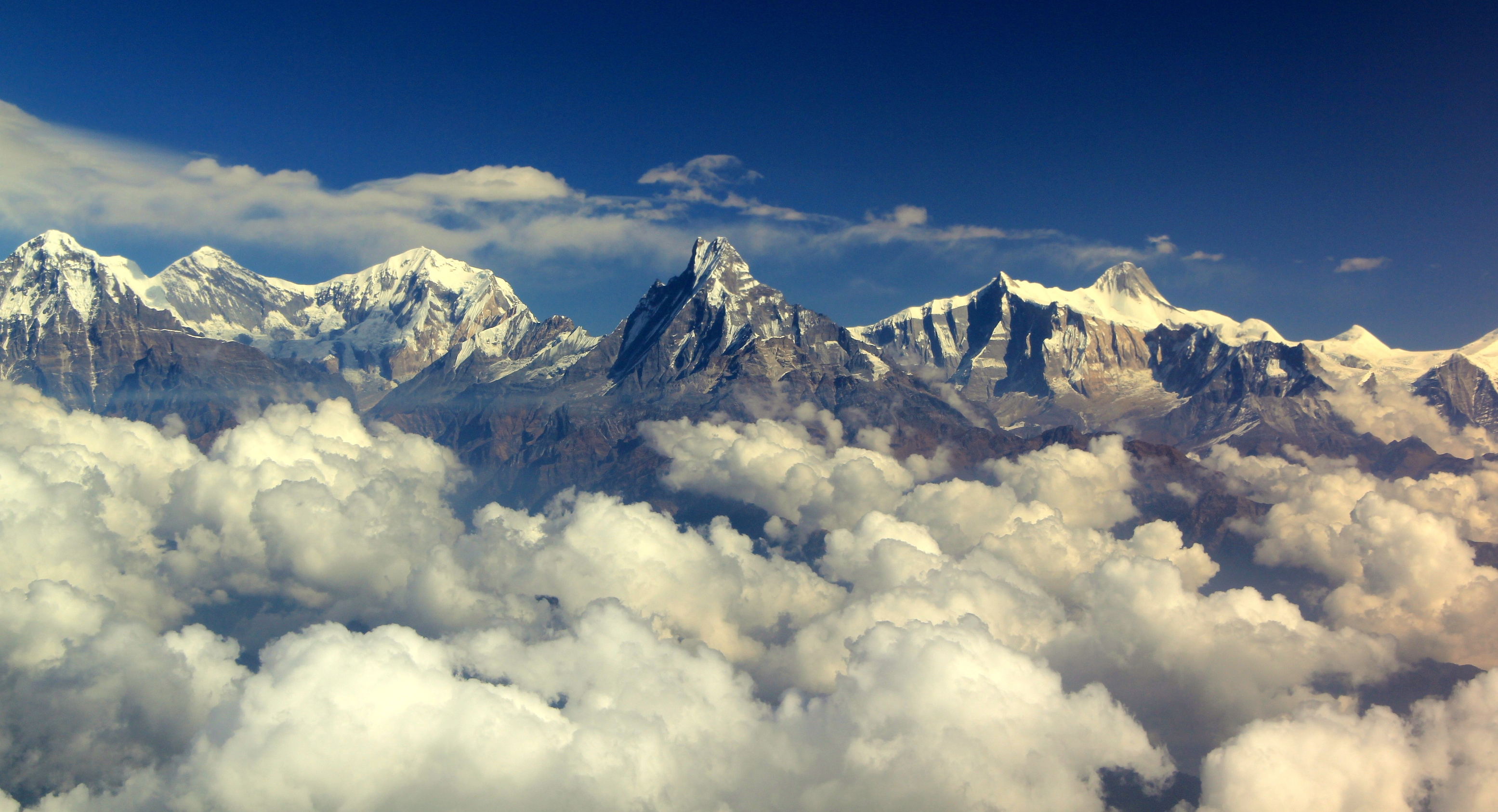 Aerial view of Annapurna Massif consisting Annapurna II, Annapurna III, Annapurna IV, Machapuchare, Gangapurna and Annapurna South Mountains.